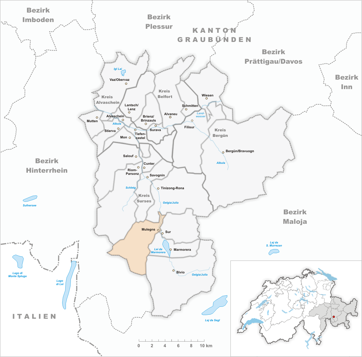 Municipality Mulegns